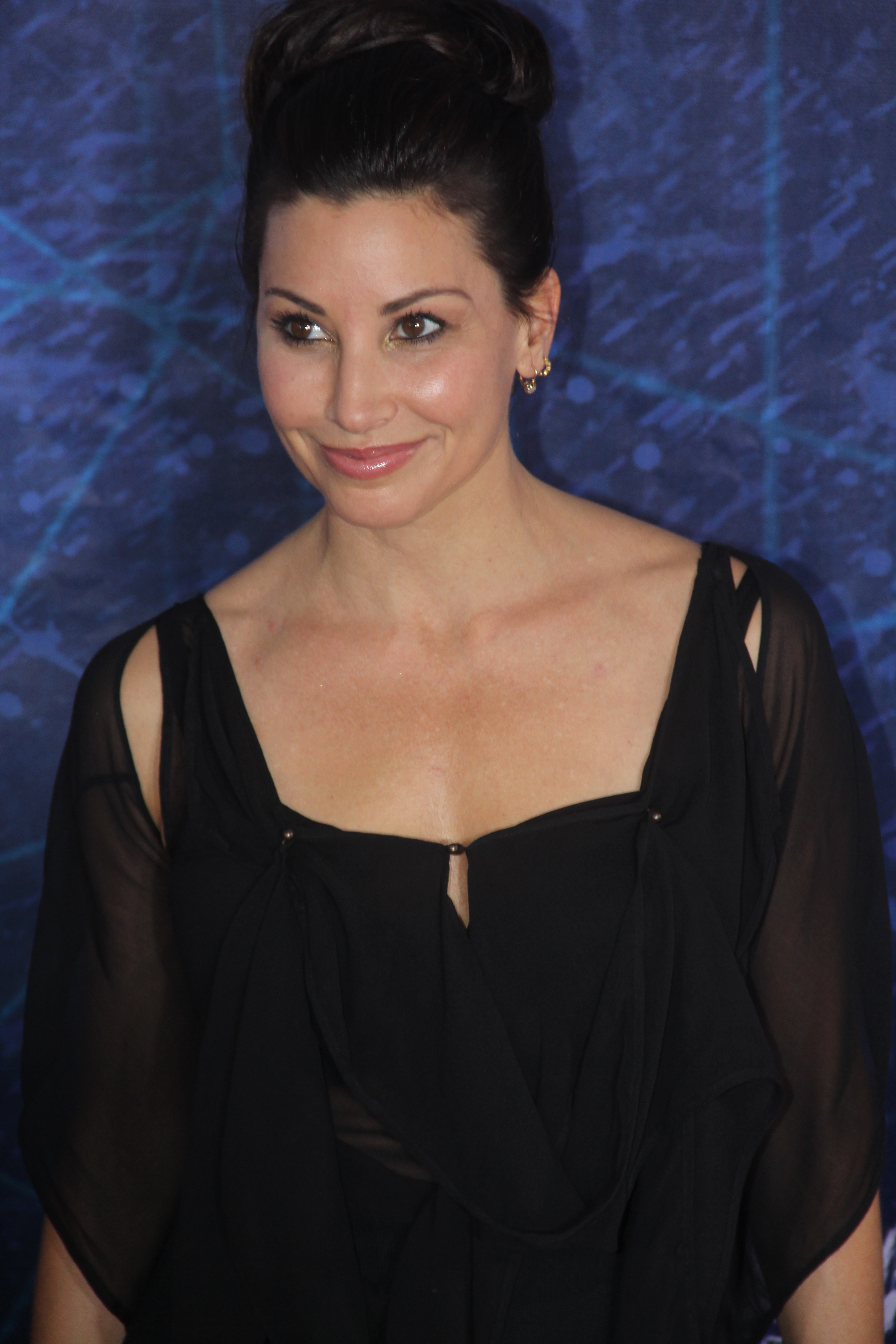 Gina Gershon at the Spiderman: Turn Off the Dark opening at Foxwoods Theatre, New York City in June 2011